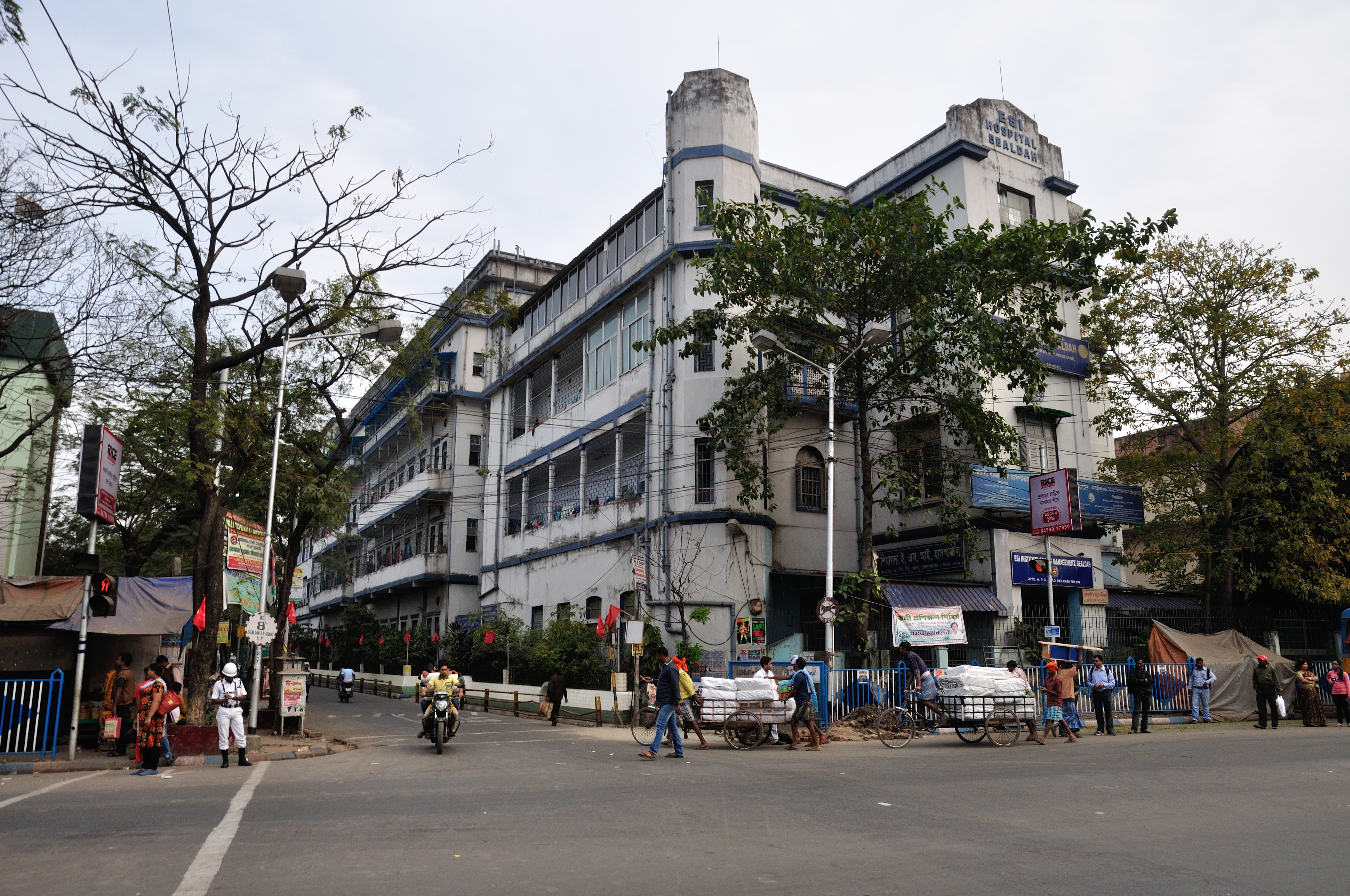 Photographed in Kolkata.